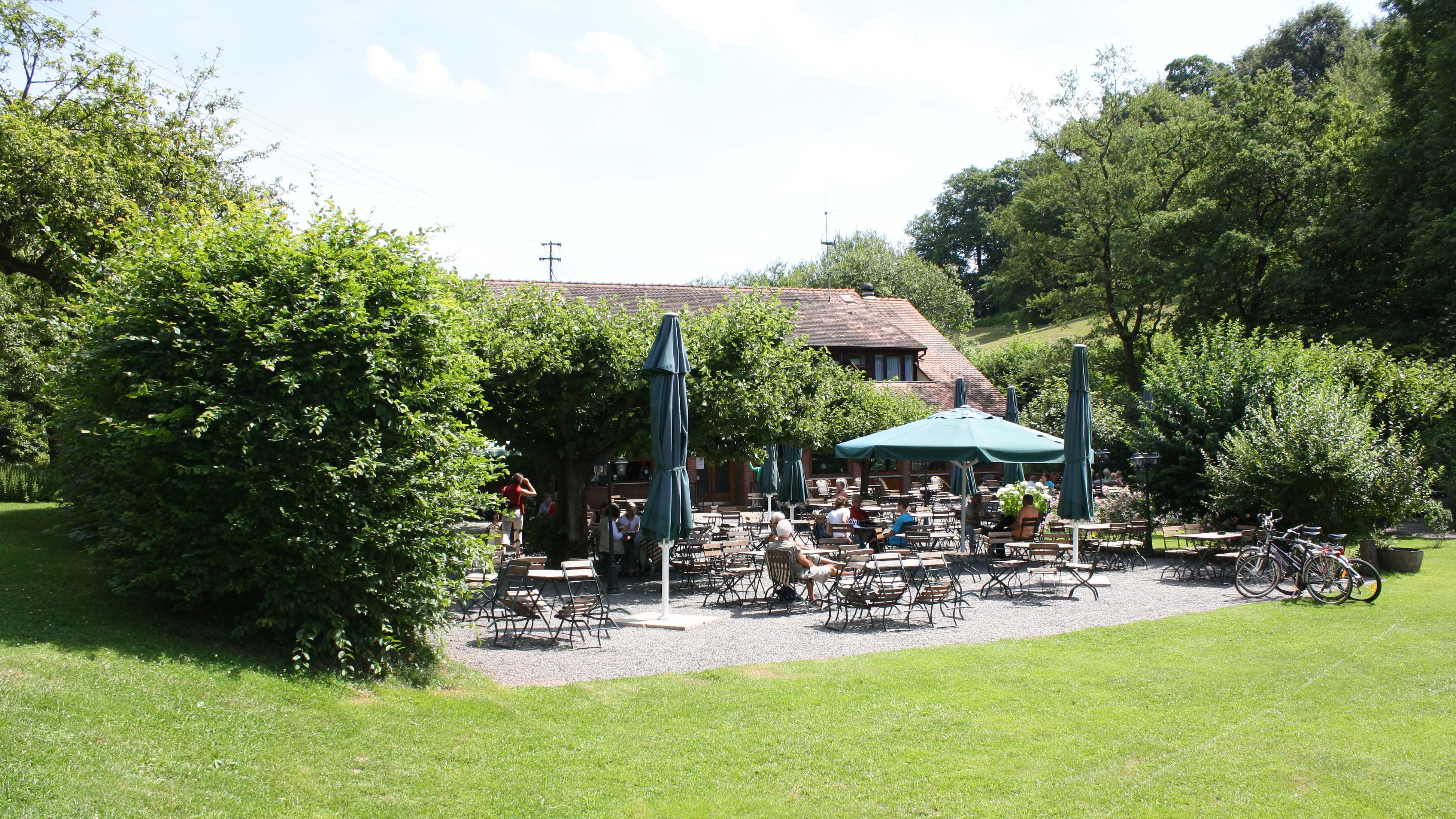 Terrace of restaurant Dammühle in Marburg-Wehrshausen